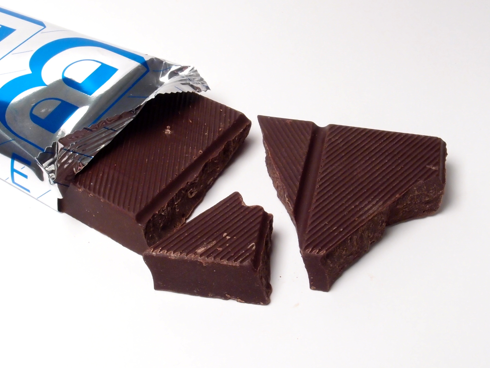 A few pieces of dark cooking chocolate, looming from their packaging. This type of product is a cheap, somewhat coarse chocolate intended for cooking and baking, sold on the German market as „Blockschokolade“. This particular specimen was made by Müller & Müller GmbH, Münchweiler (a subsidiary of Wawi Group), and has a minimum cocoa content of 40 %. The reflective blue-white packaging with giant letters is typical for cooking chocolate in the German retail market and is used in different forms by several brands.